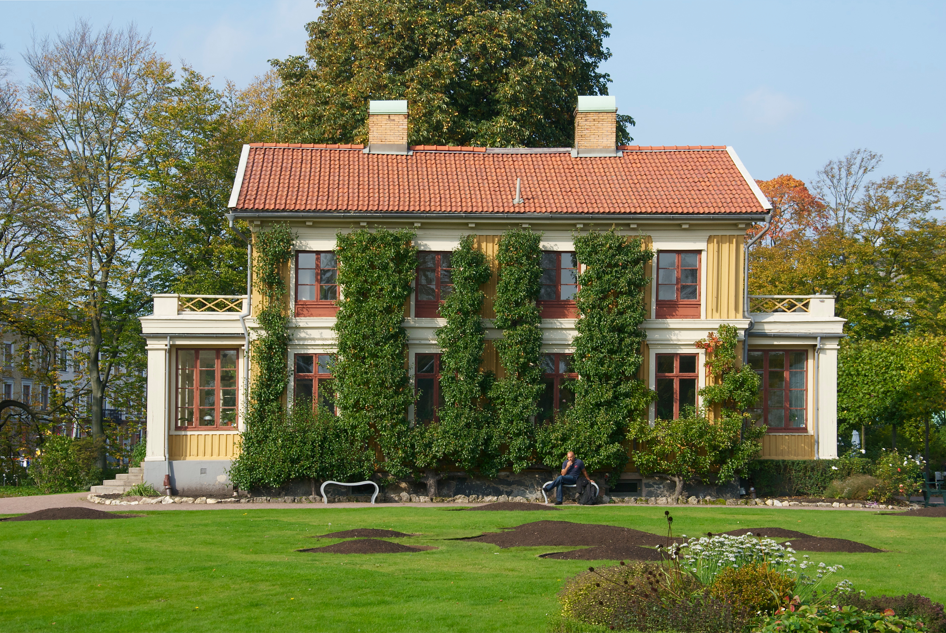 Direktörsvillan in Trädgårdsföreningen (The Garden Society) in Gothenburg, Sweden.